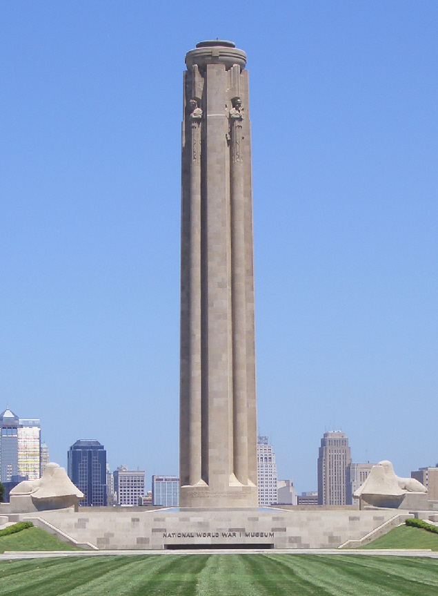 Liberty Memorial, Kansas City, Missouri, 18 July 2008